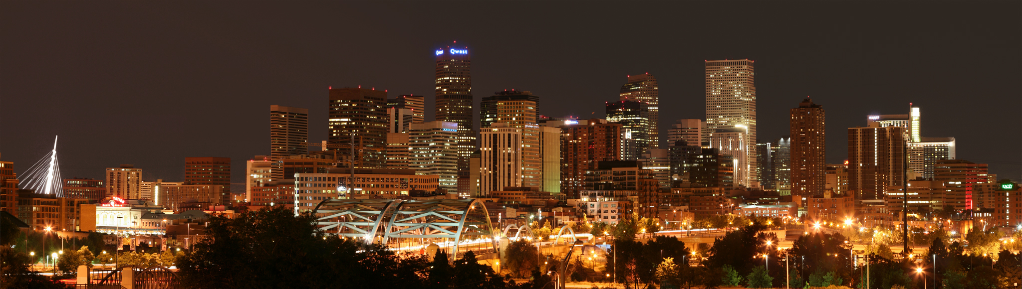 Denver skyline around midnight from I-25 and Speer Blvd.